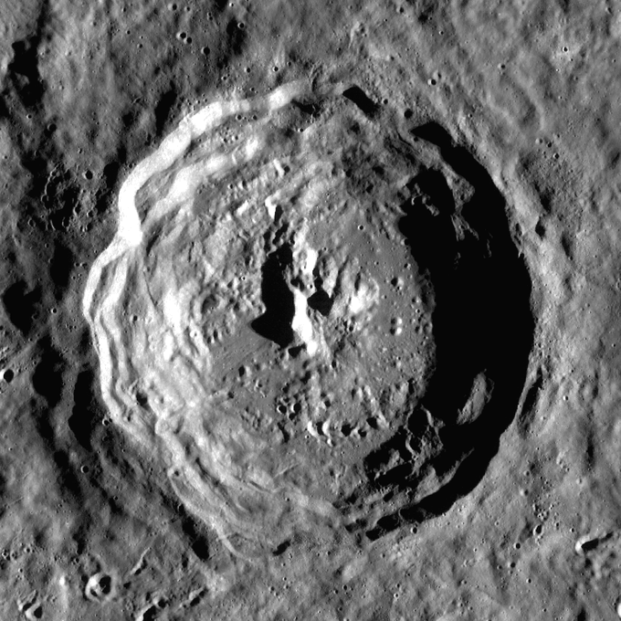 Crater Eratosthenes on the Moon. Mosaic of photos by Lunar Reconnaissance Orbiter, made with Wide Angle Camera. Size of the image is 80×80 km, north is up.